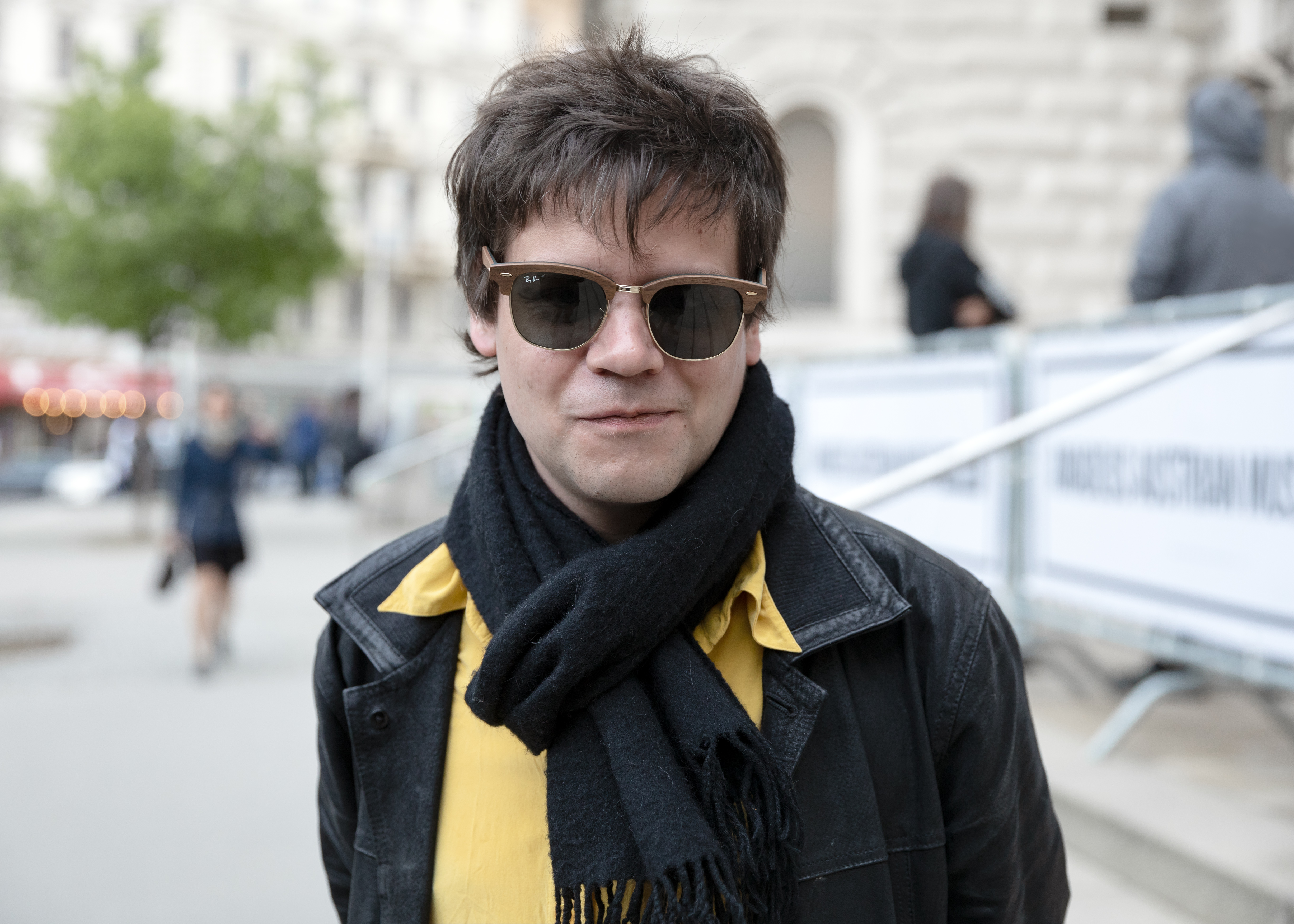 Der Nino aus Wien at the Amadeus Austrian Music Award 2018 at Volkstheater in Vienna.